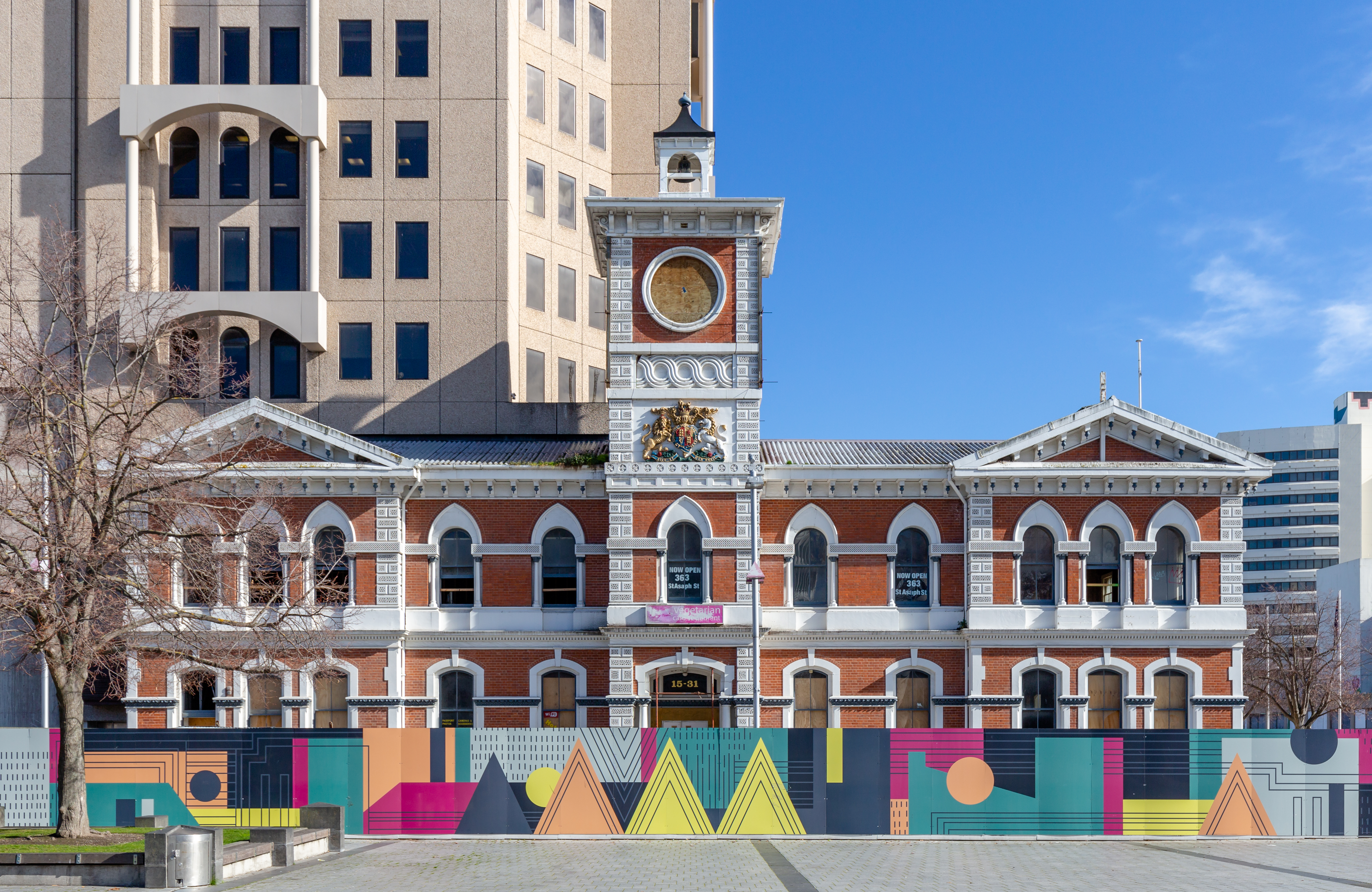 Chief Post Office, Christchurch, New Zealand